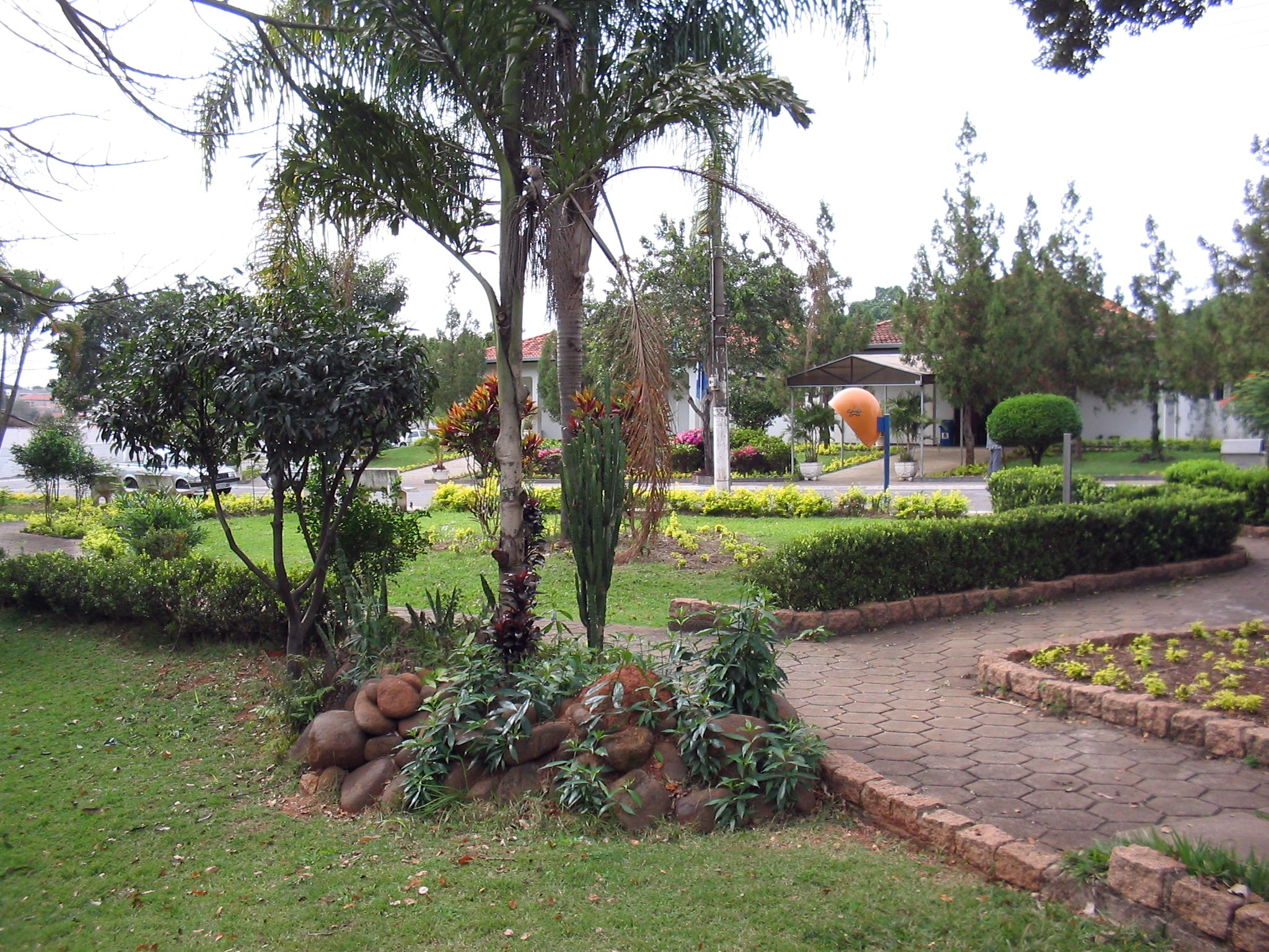 Town square "Praça dos Ferroviários" locate at Cosmópolis-SP. jul/11/2005